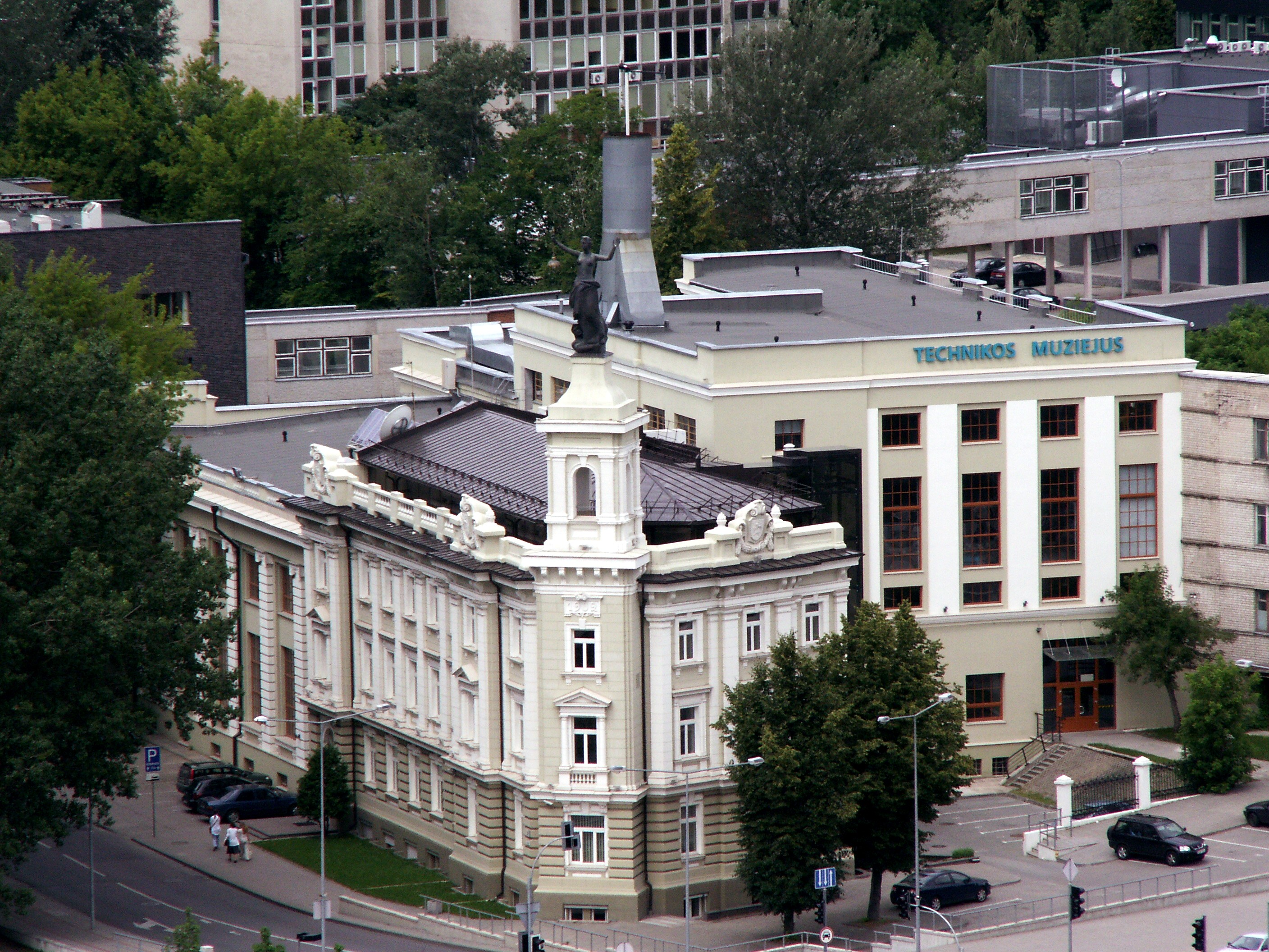 Museum of technics of Lithuania in Vilnius, Lithuania